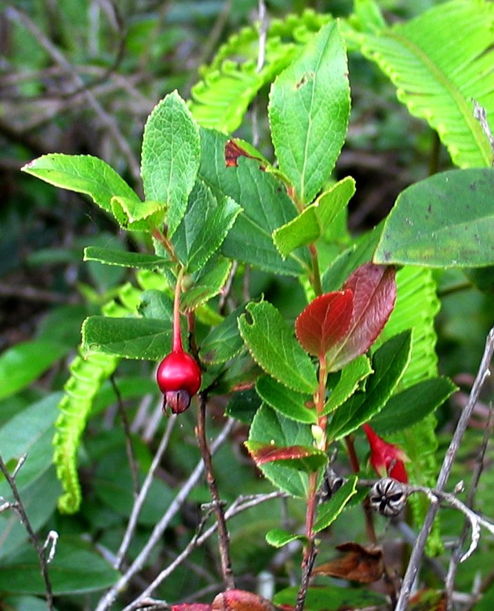 ʻŌhelo Ericaceae Endemic to the Hawaiian Islands Lānaʻihale, Lānaʻi